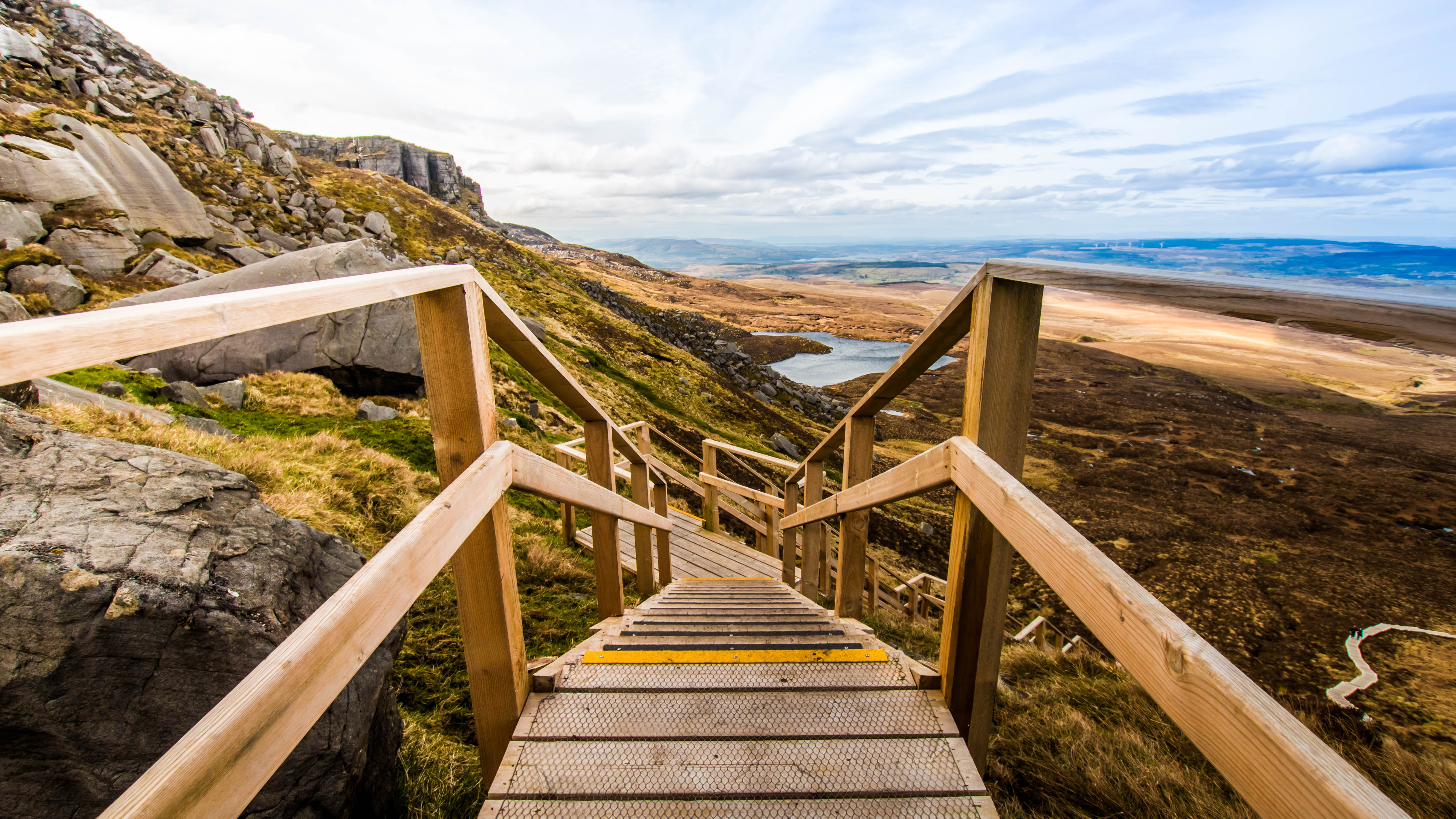 Stairway to Heaven Boardwalk in Cuilcagh Mountain, Ireland